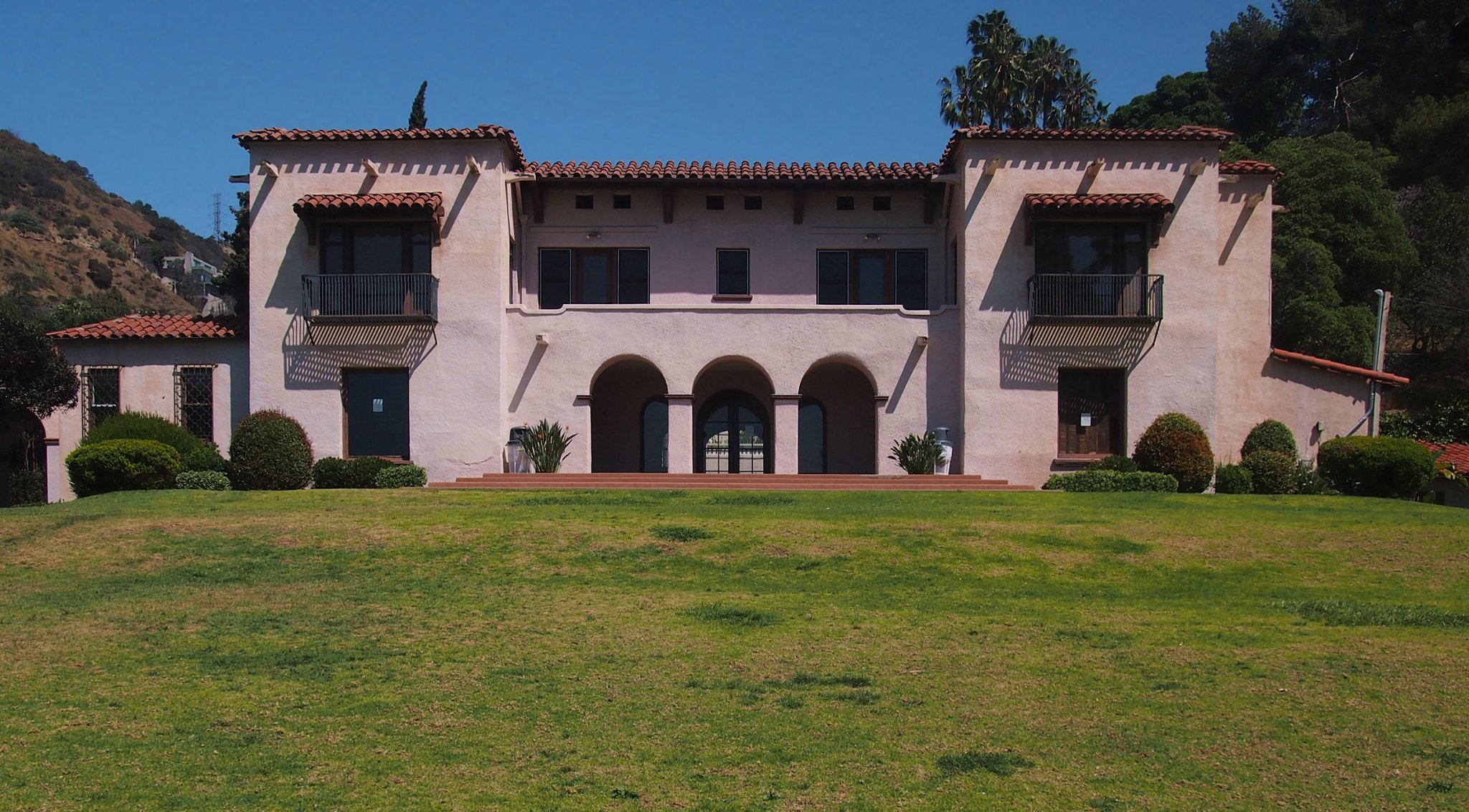 Wattles Mansion, 1824 N Curson Ave, Los Angeles, California, USA. Viewed from the south.